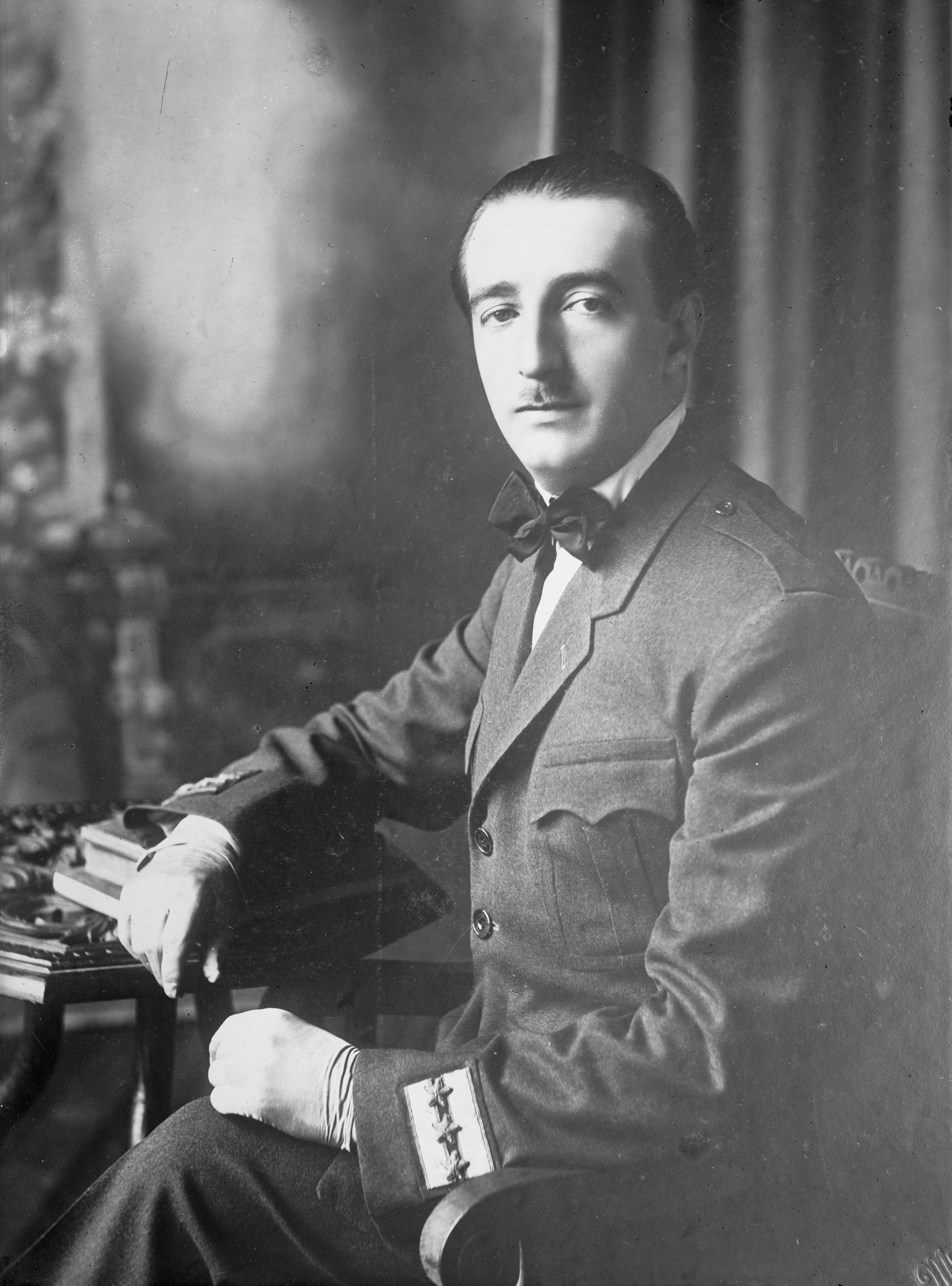 Zog I (born Ahmet Zogolli, later changed to Ahmet Zogu) (8 October 1895 – 9 April 1961) was King of Albania from 1928 to 1939. He was previously Prime Minister of Albania (1922 - 1924) and President of Albania (1925 - 1928).